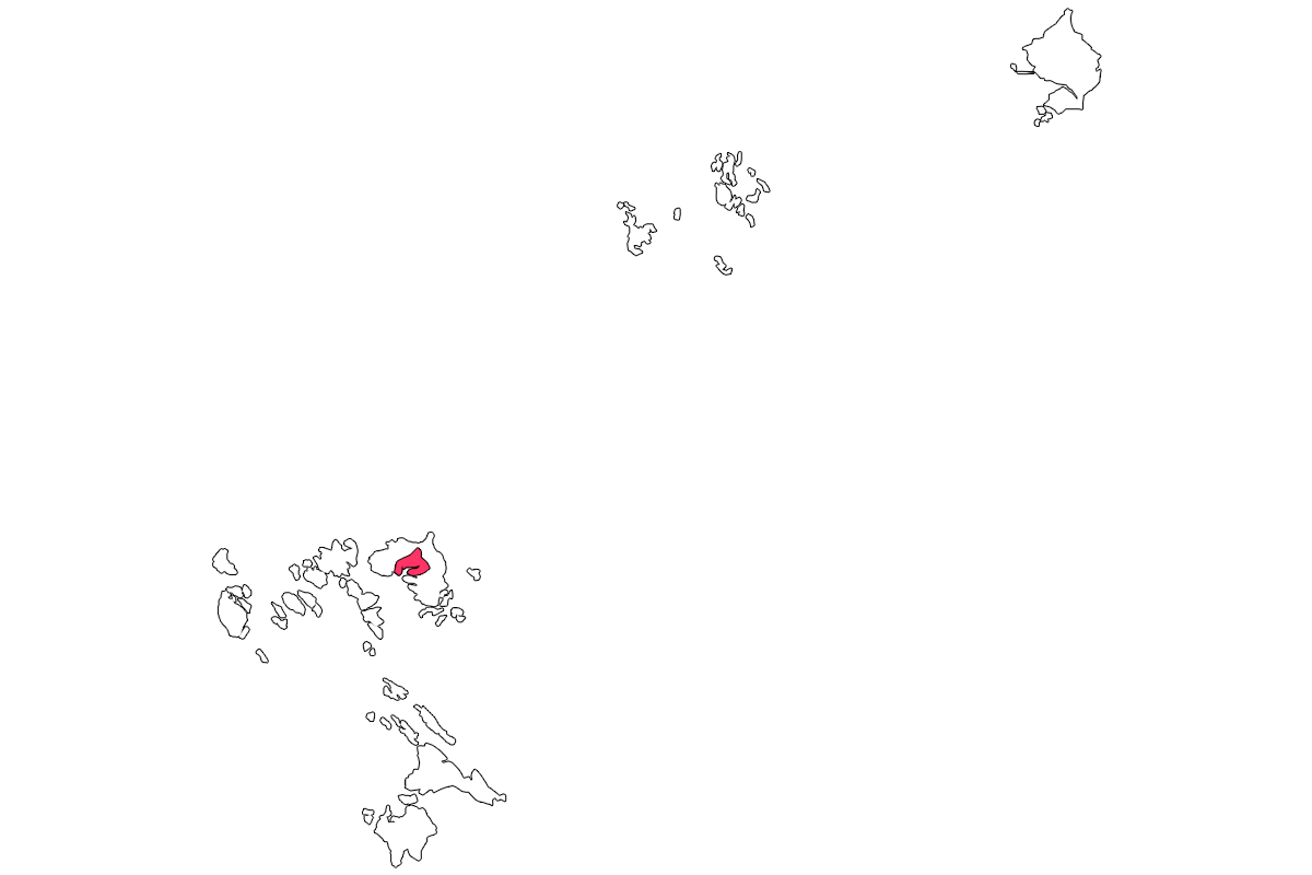 Locator of Tanjungpinang City within Riau Islands Province